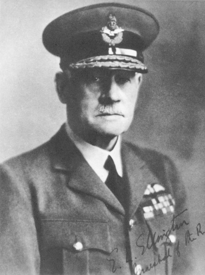 Portrait photograph of Marshal of the Royal Air Force Sir Edward Ellington